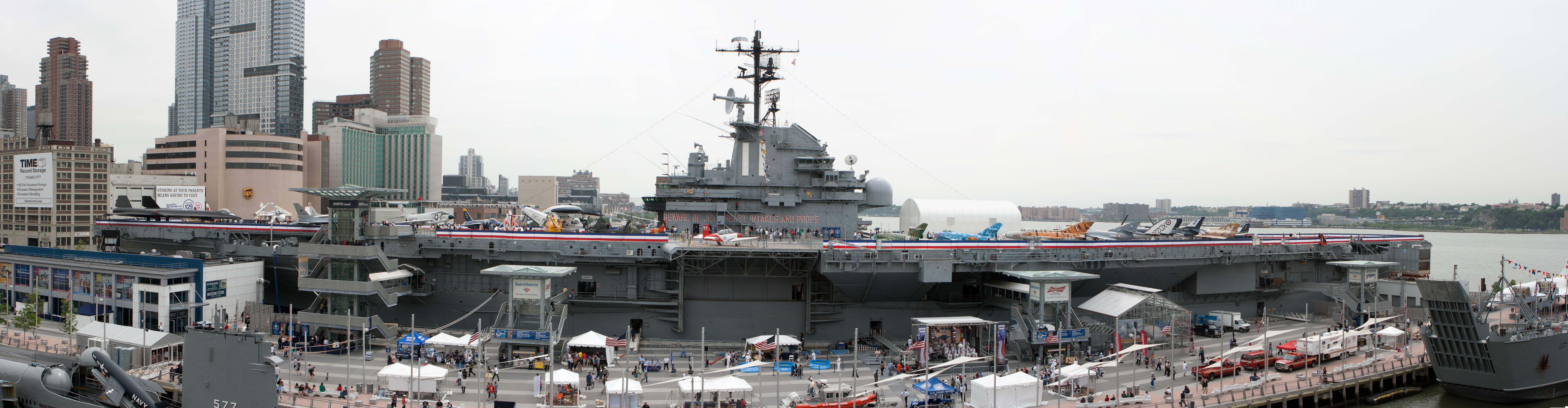 A panorama of the museum ship USS Intrepid (CV-11) during Fleet Week 2010 in New York City